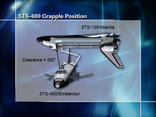 This way, Endeavour would grapple Atlantis